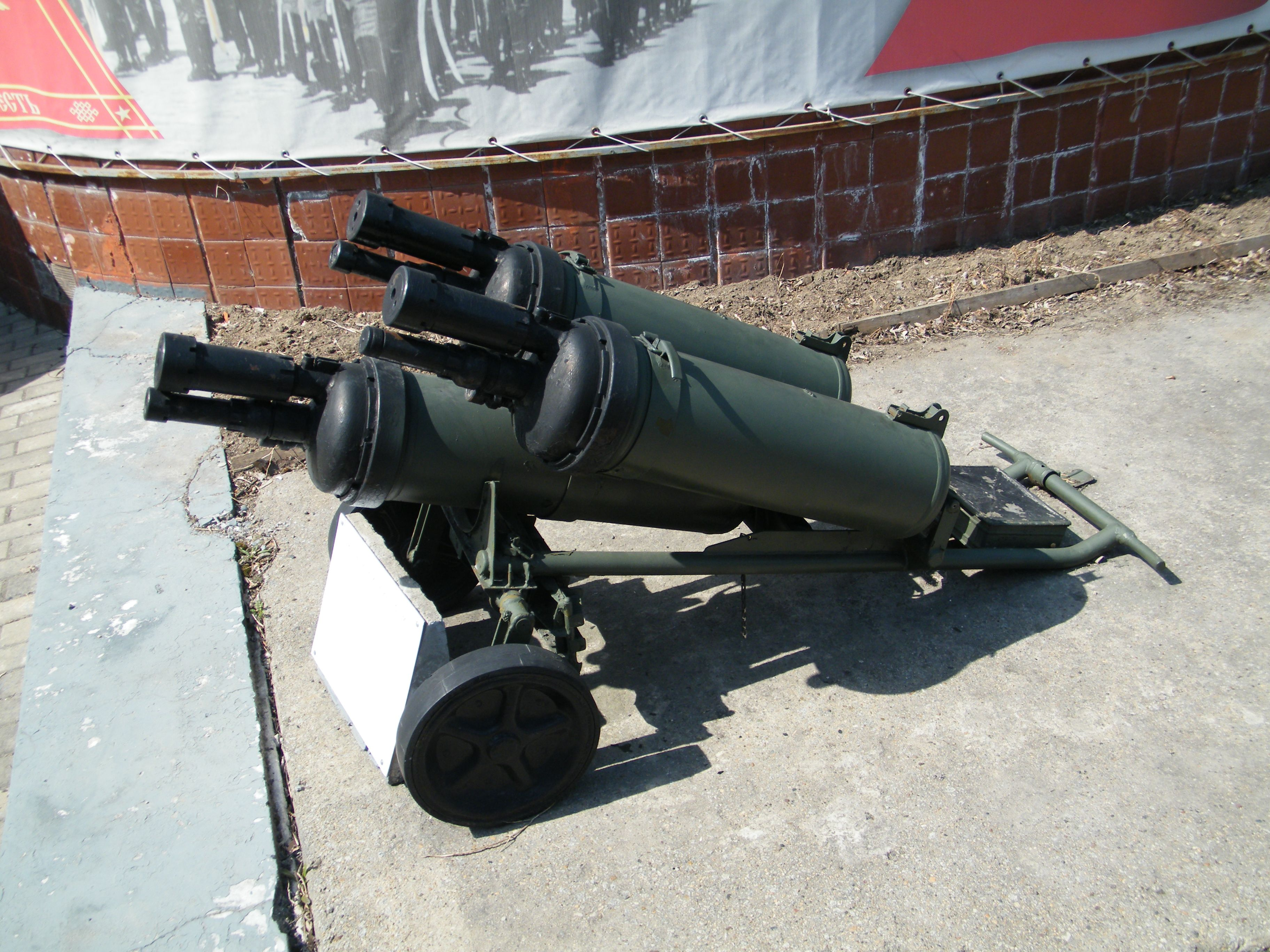 Огнемет в Хабаровске